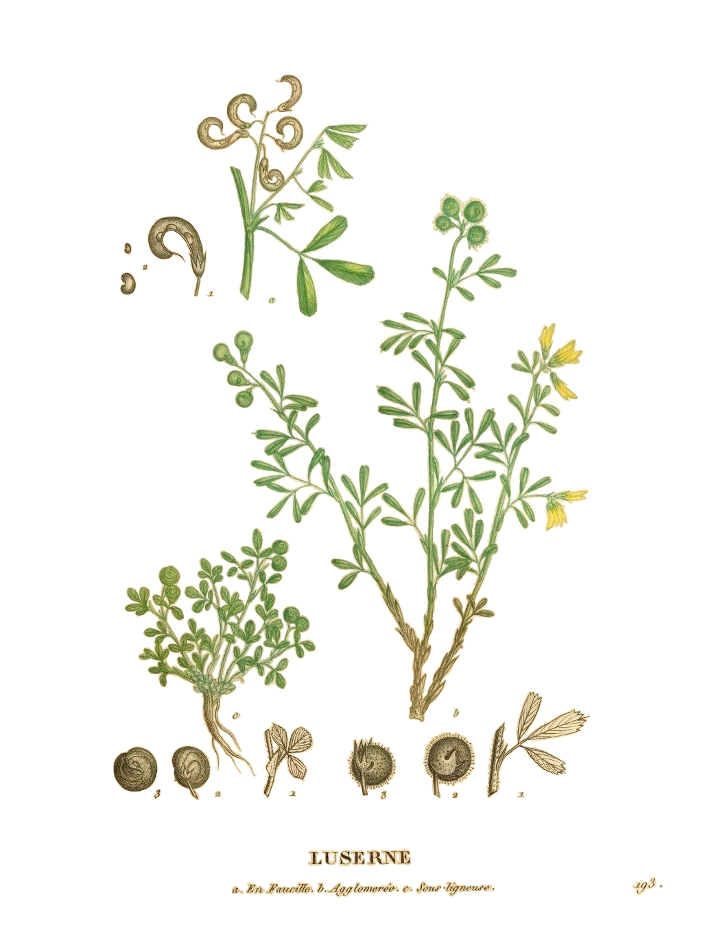 Illustrations of Medicago falcata (top left), Medicago glomerata (right), and Medicago suffruticosa (bottom left).